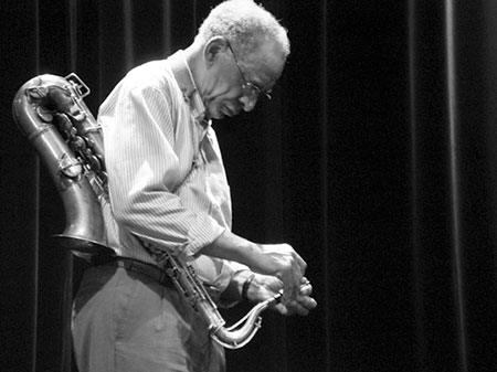 John Thcicai